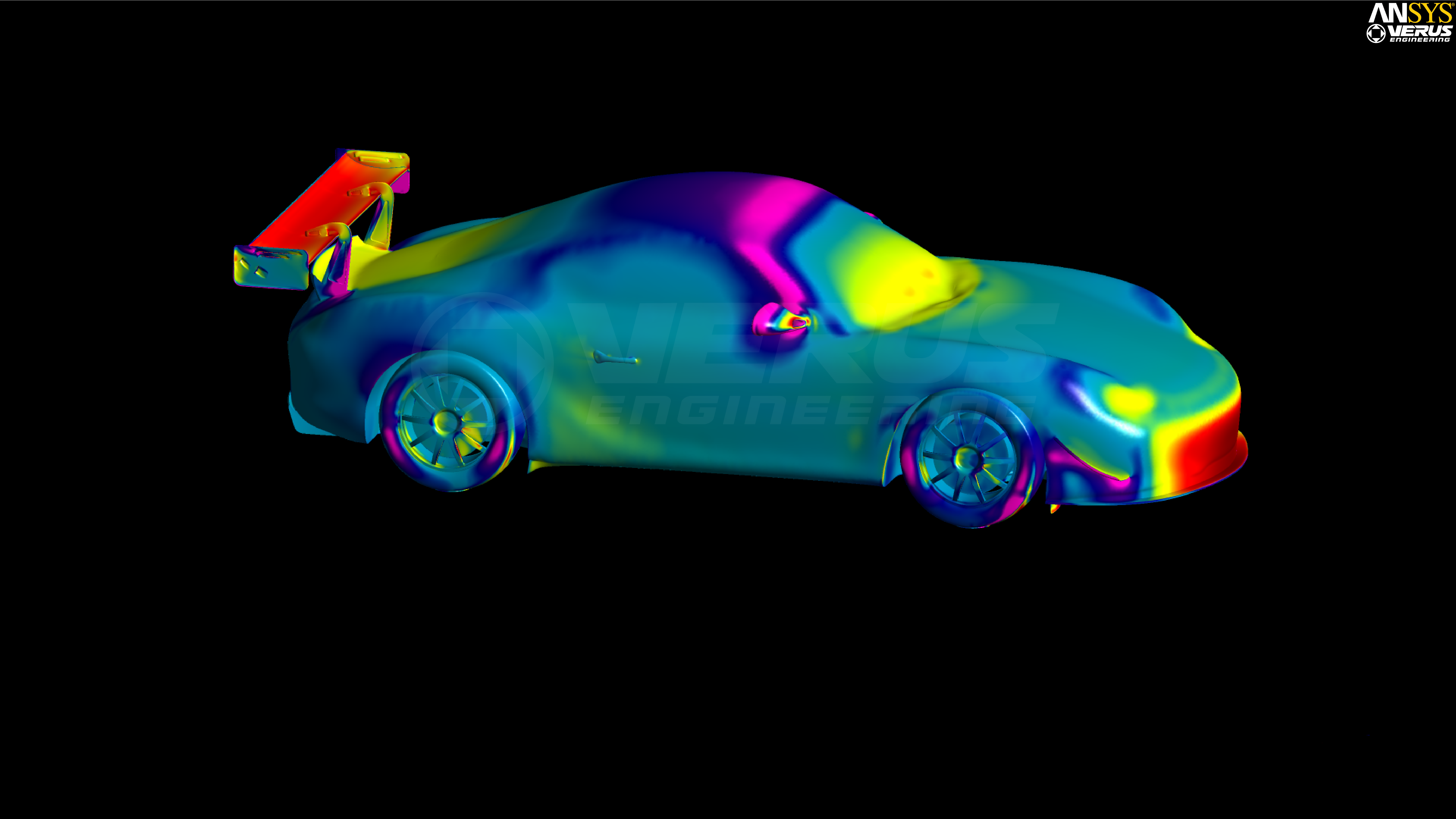 This is a CFD analysis of the Ventus 2 package for the 987.2. The plot shows the coefficient of pressure on the vehicle's surface.